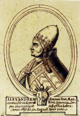 Sketch of Pope Alexander III by 17th century artist